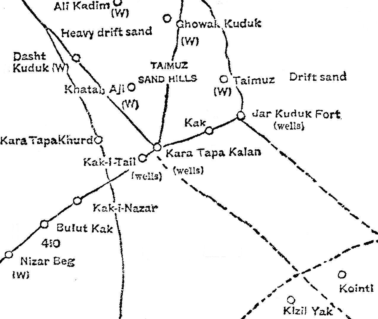 1886 map of Qarah Tappeh (Kara Tapa) area in Jowzjan Province, Afghanistan, from a map of the Kham-i-Ab, or disputed area between Russia and Afghanistan.